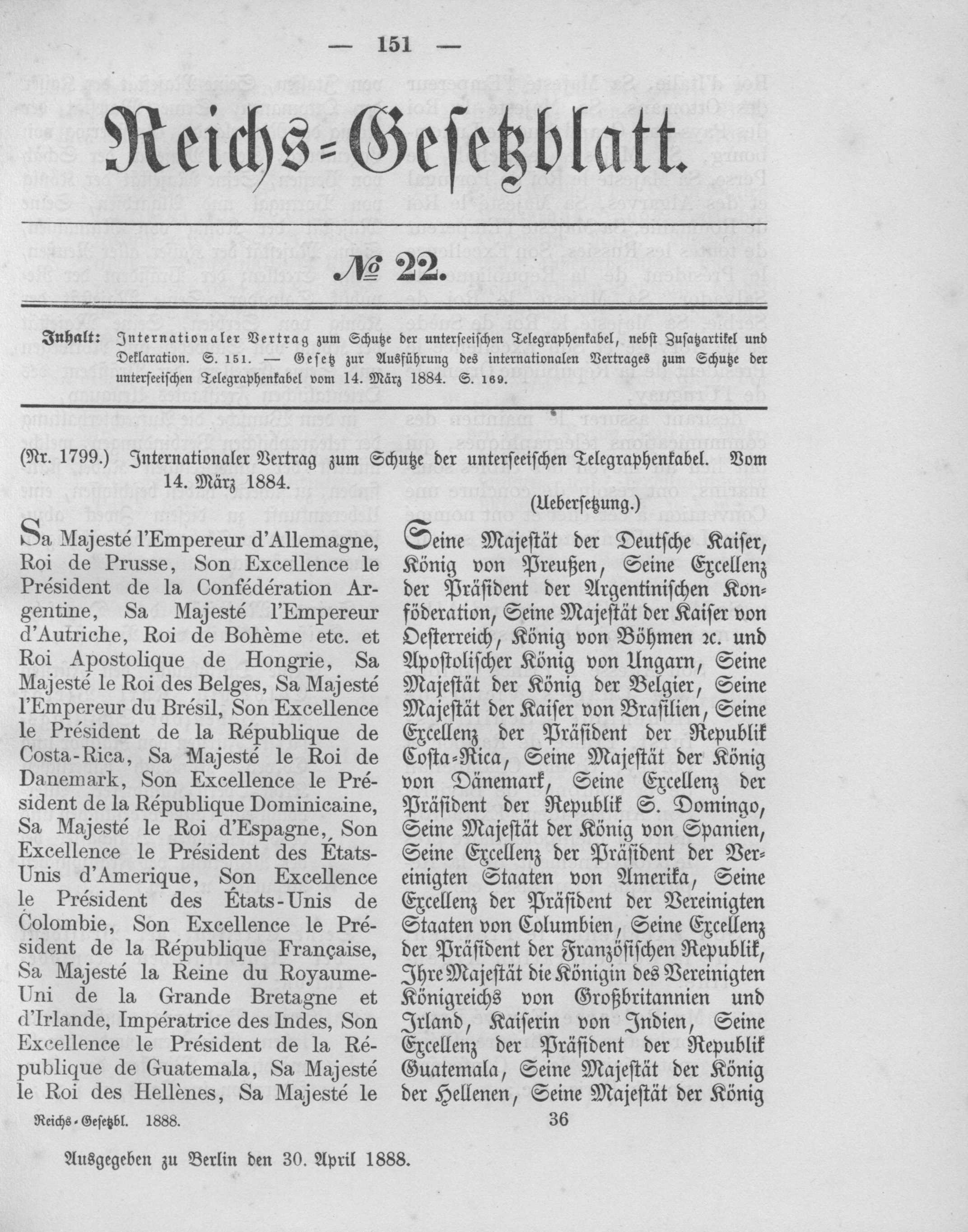 Scan from the Imperial Law Gazette of Germany, 1888